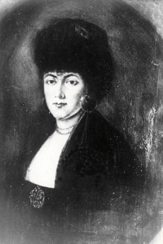 Beethoven's friend Babette Koch (1771-1807), photograph of an anonymous oil portrait